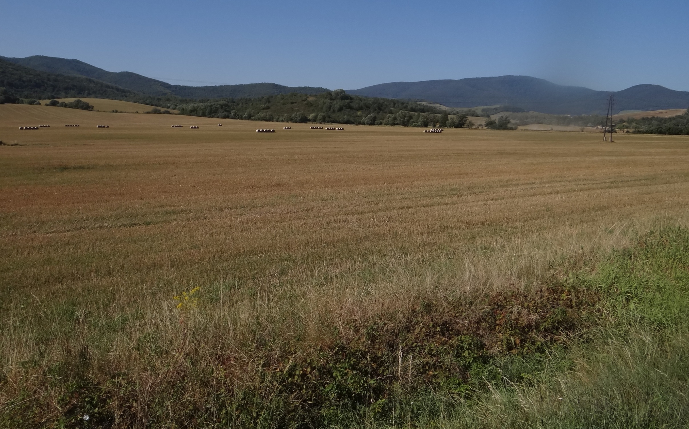 Rožňavská kotlina in Brzotín